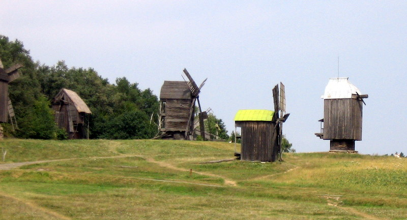 Windmills, Museum of Folk Architecture and Ethnography, Pirogiv near Kiev